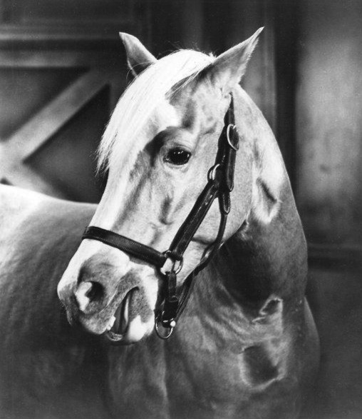 Photo of Mister Ed from the television program Mister Ed.